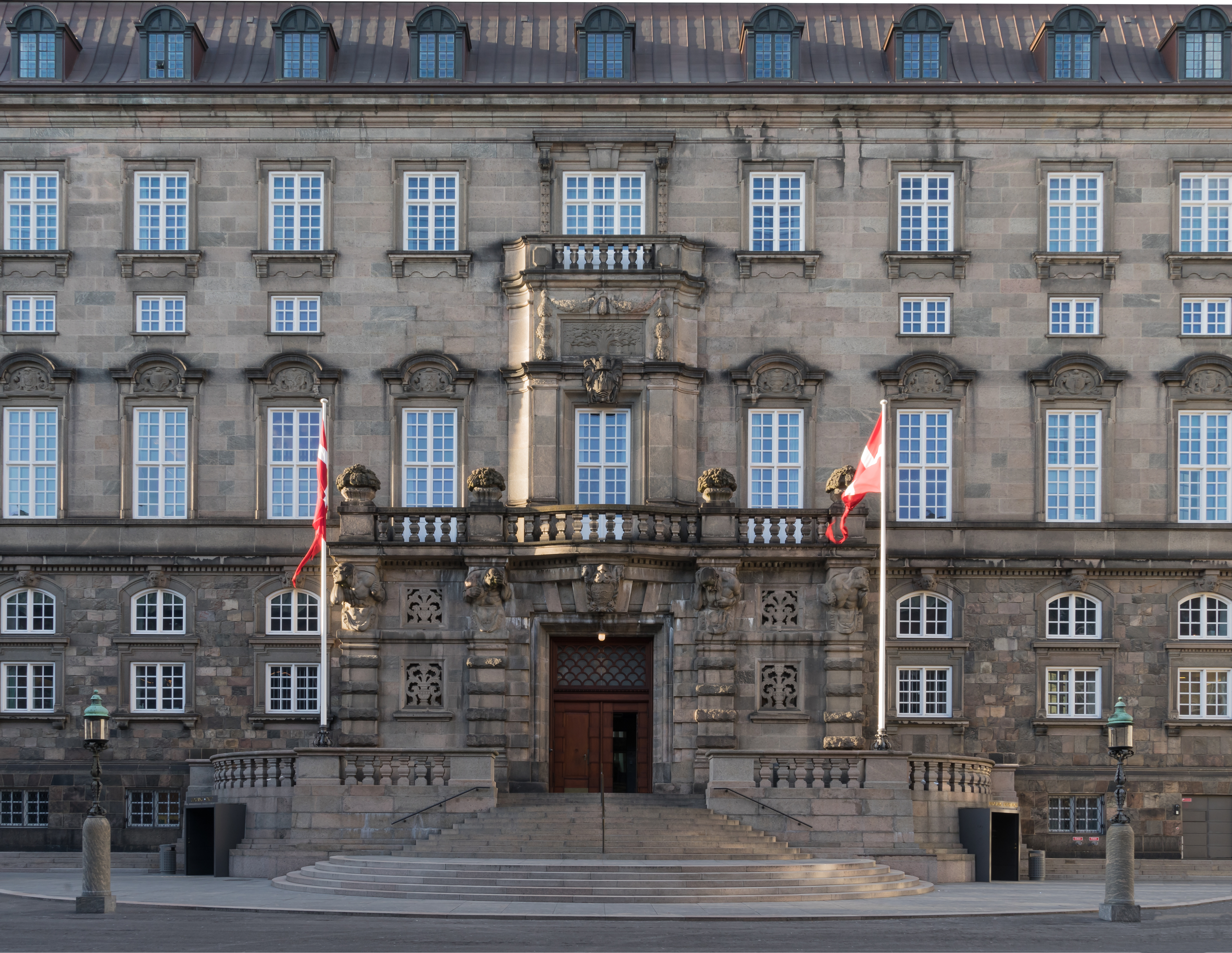 Entrance of the danish Parliament, Christiansborg, Copenhagen, Denmark.